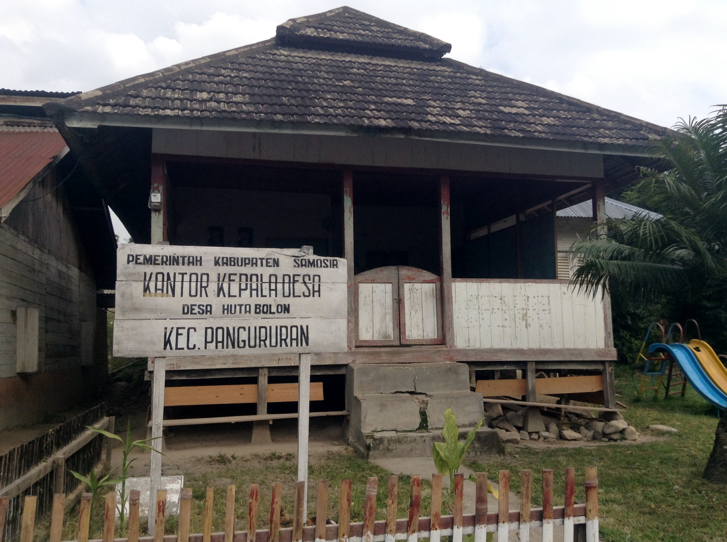 Office village of Huta Bolon, Pangururan, Samosir, North Sumatra, Indonesia.